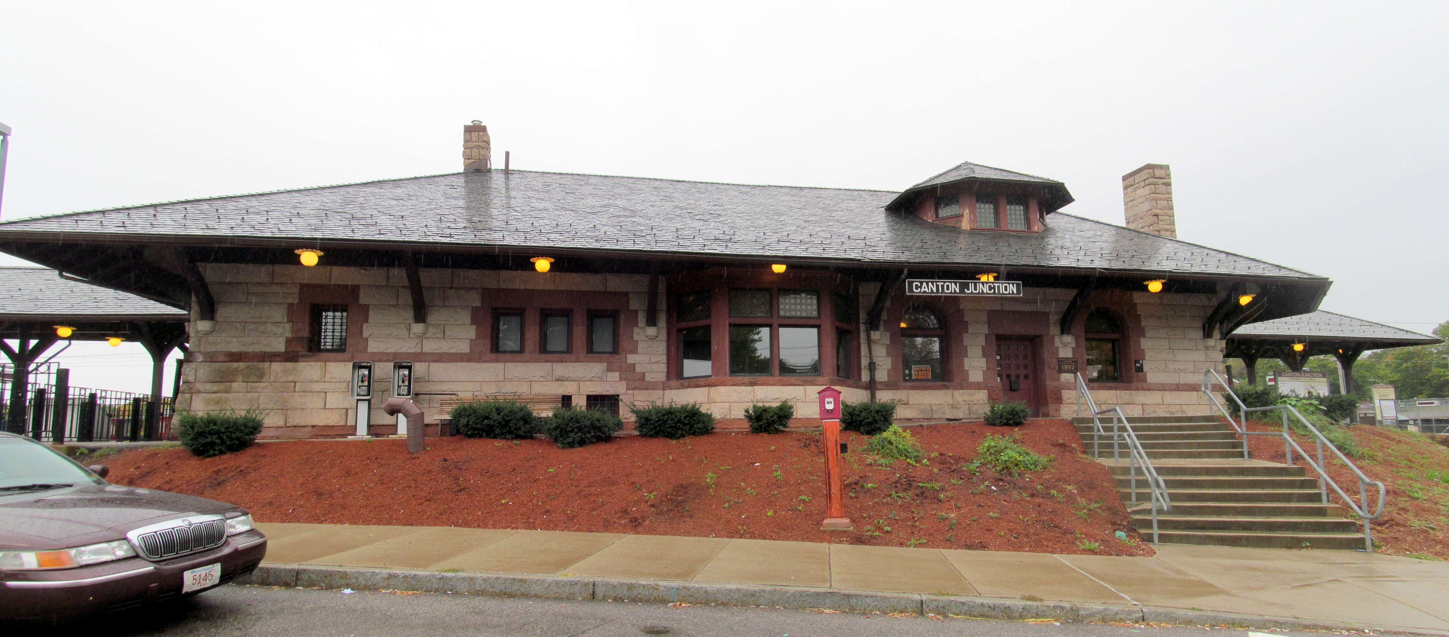 Canton Junction station building in September 2012